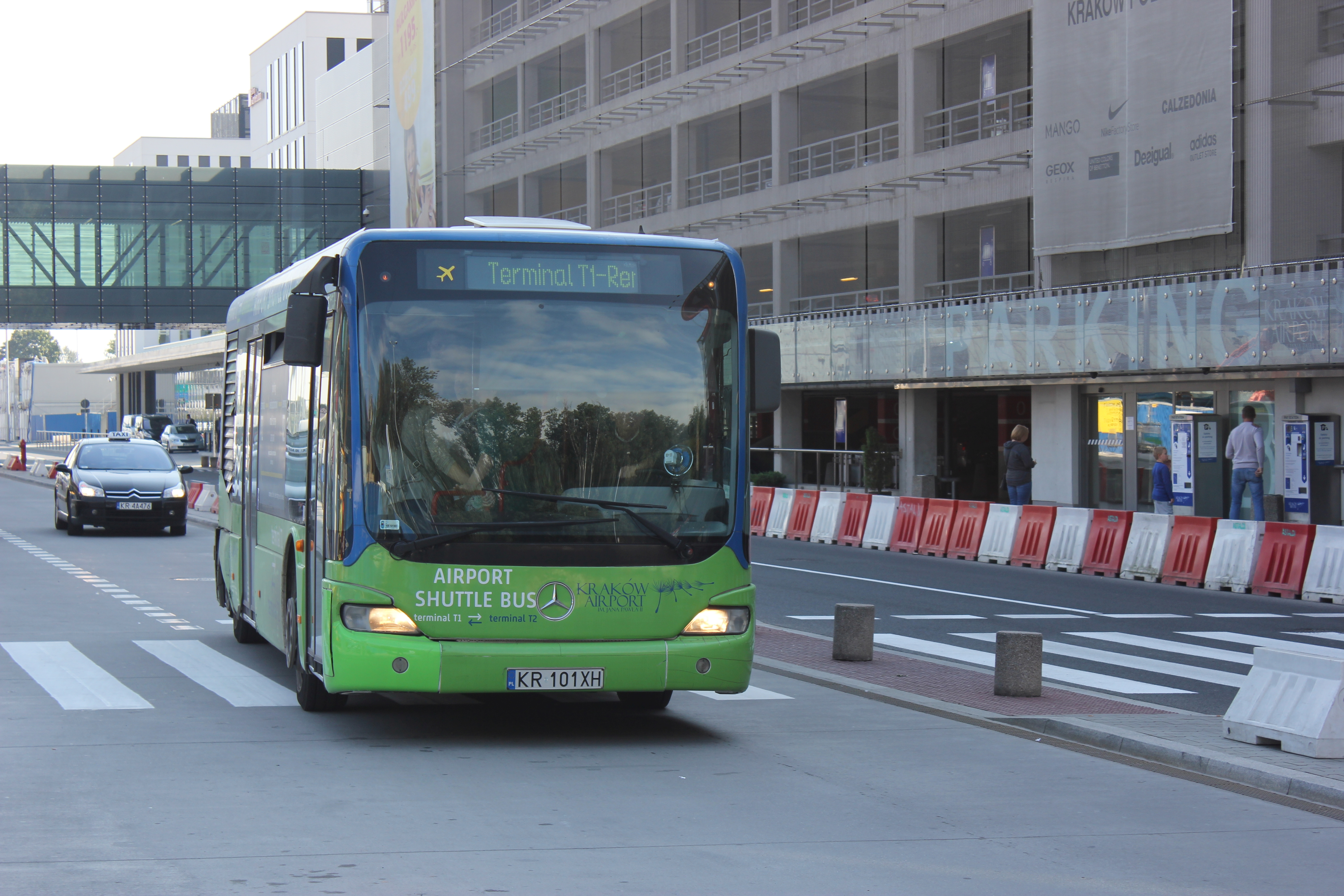 Balice - Kraków-Balice John Paul II International Airport - Mercedes Benz Cito airport T1-T2 shuttle bus